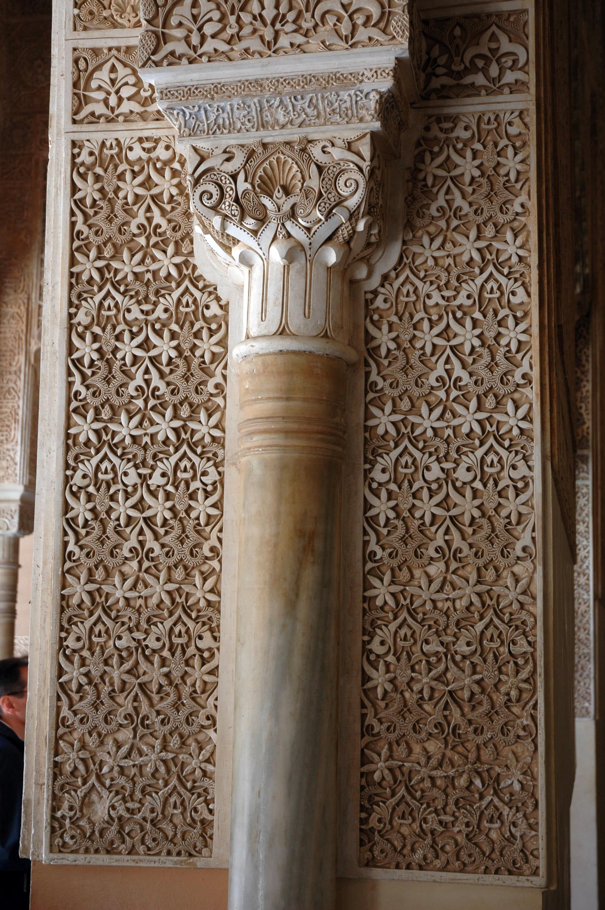 Column in the Alhambra Palace, Granada, Andaluzia, Spain.Column